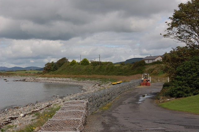 Ballymacscanlan Bay, Co Louth. Ballymacscanlan Bay is the estuary of the Flurry River where it reaches Dundalk Harbour. It is well known for its bird life - particularly waders. This is a view of the bay with the hills of south Armagh in the distance.